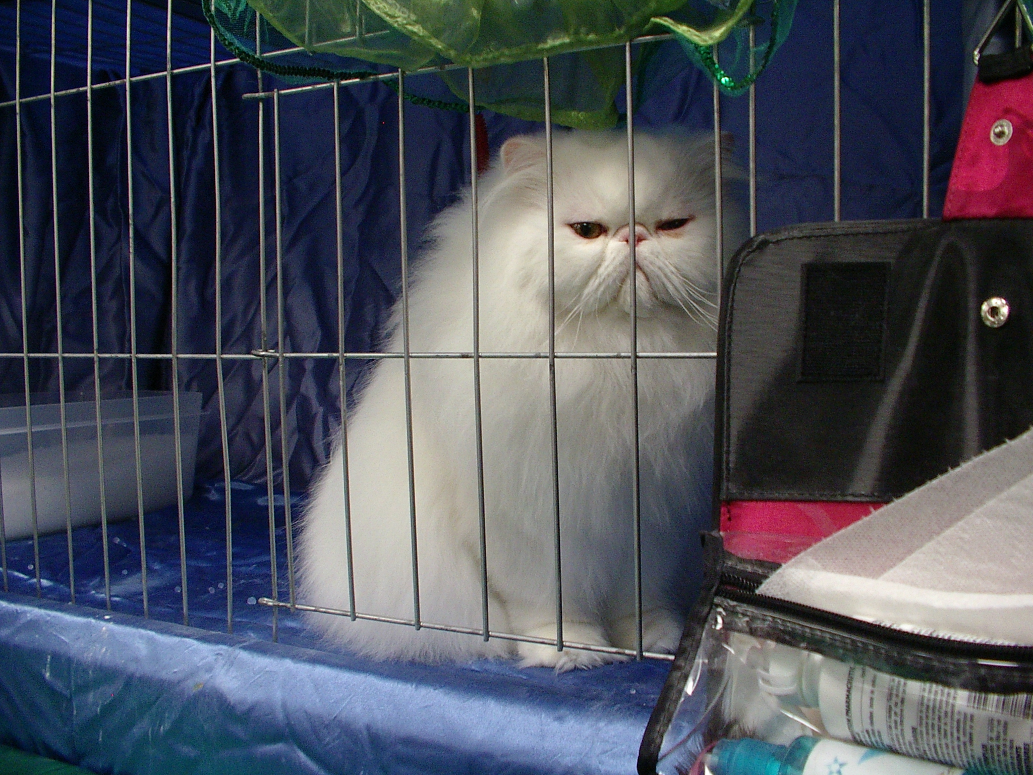 2006 CFA-Iams Cat Championship, Madison Square Garden.